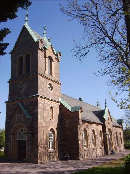 The church in Brastad, Sweden.